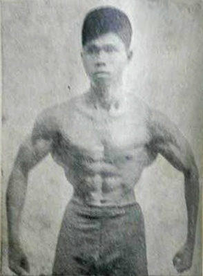 A page from Chinese bodybuilding pioneer Zhao Zhuguang's 1934 publication, Jirou Fadafa (肌肉发达法; Muscle Growth Methods).